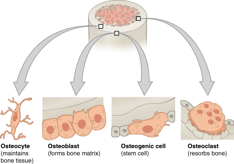 Illustration from Anatomy & Physiology, Connexions Web site. Jun 19, 2013.